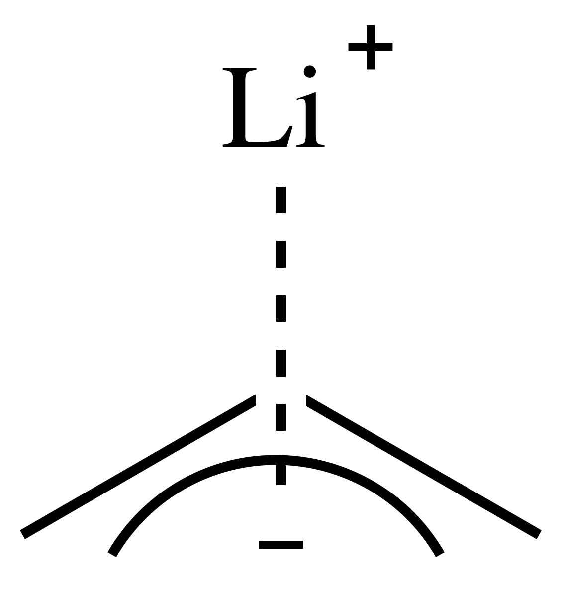 Delocalized electron density in allyllithium reagents